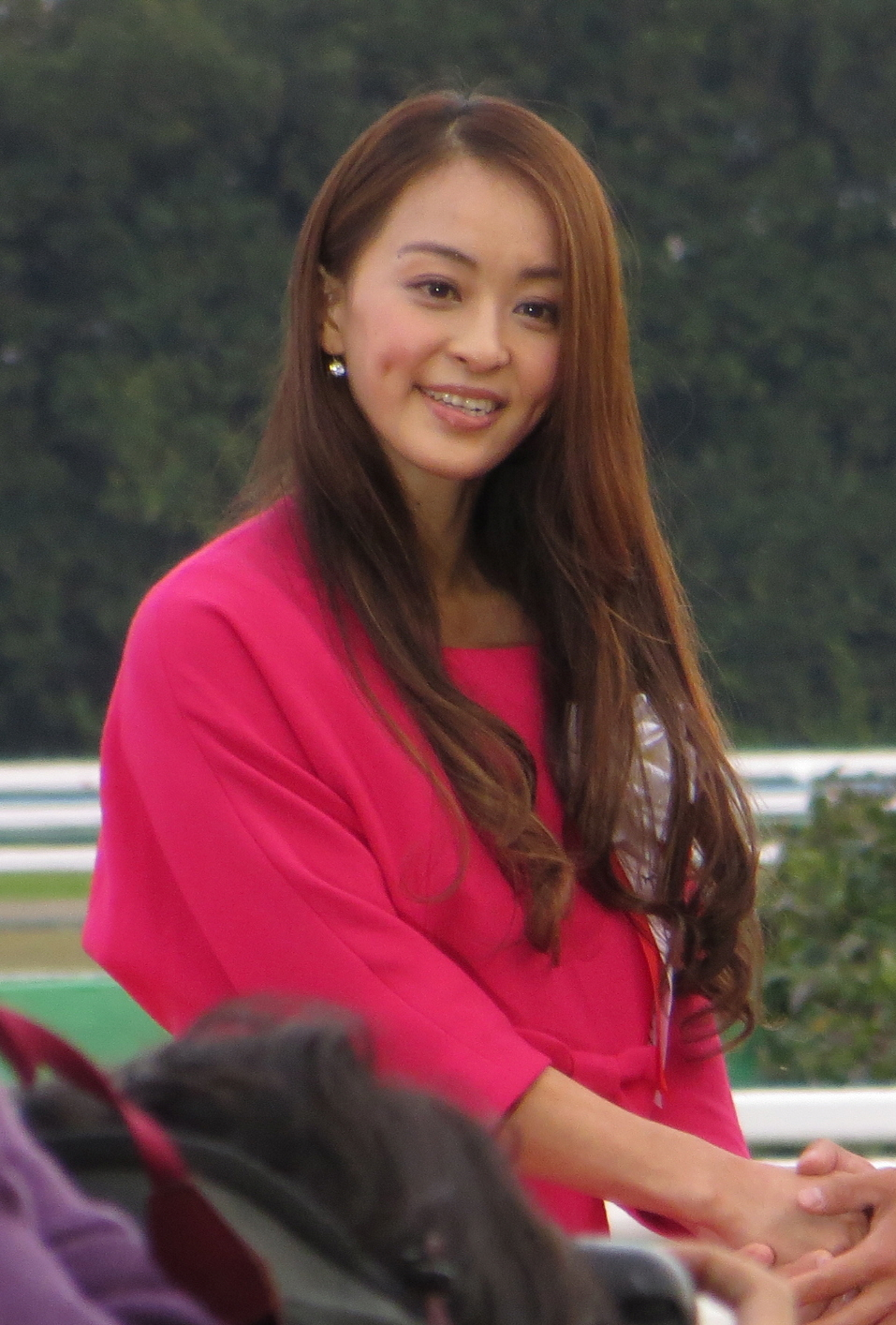 Rie Tanaka in 39th Queen Elizabeth II Cup - Kyoto Racecourse